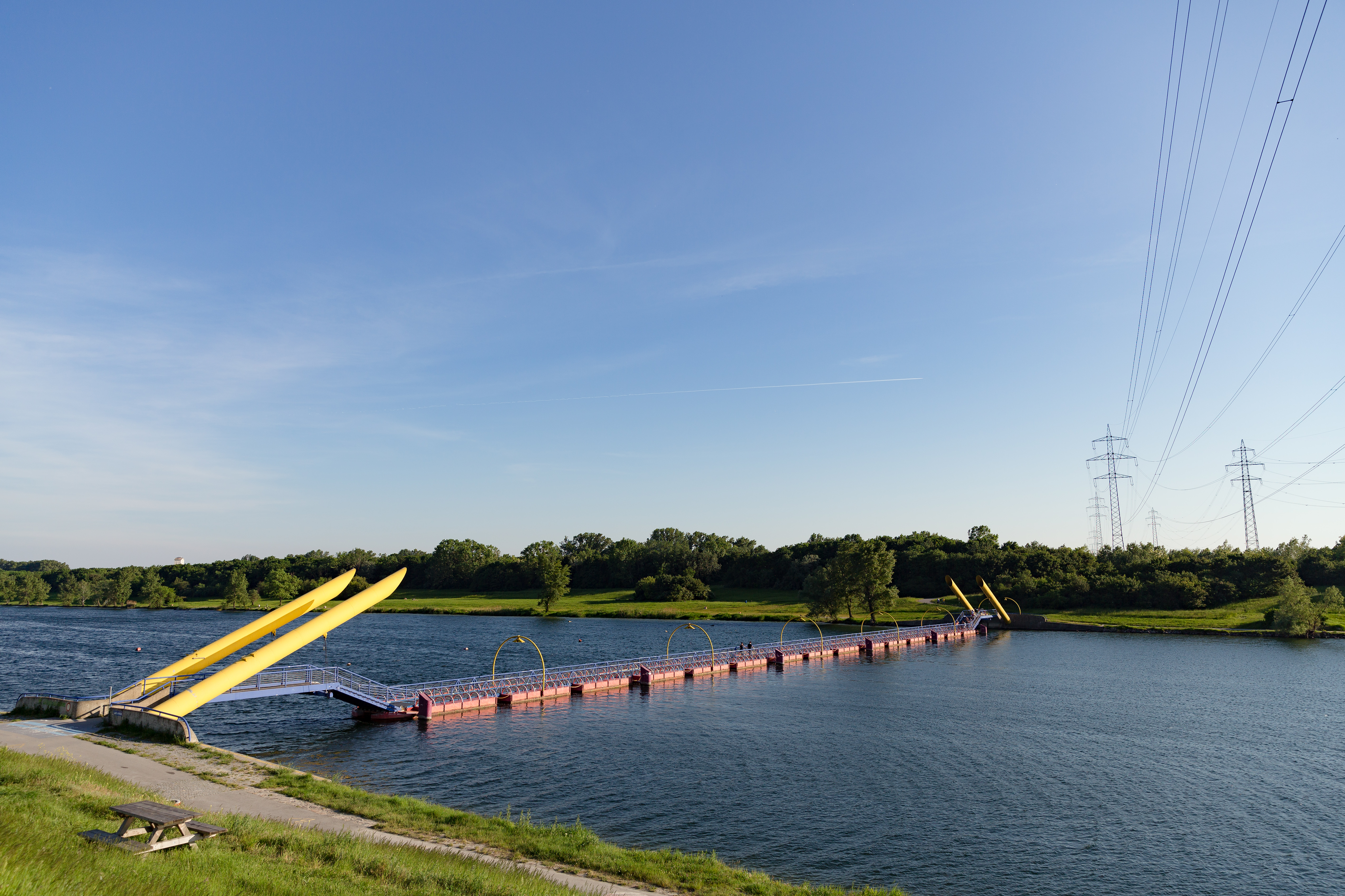 Walulisobrücke across New Danube in Vienna, Austria).